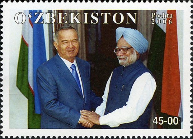 Stamps of Uzbekistan, 2006